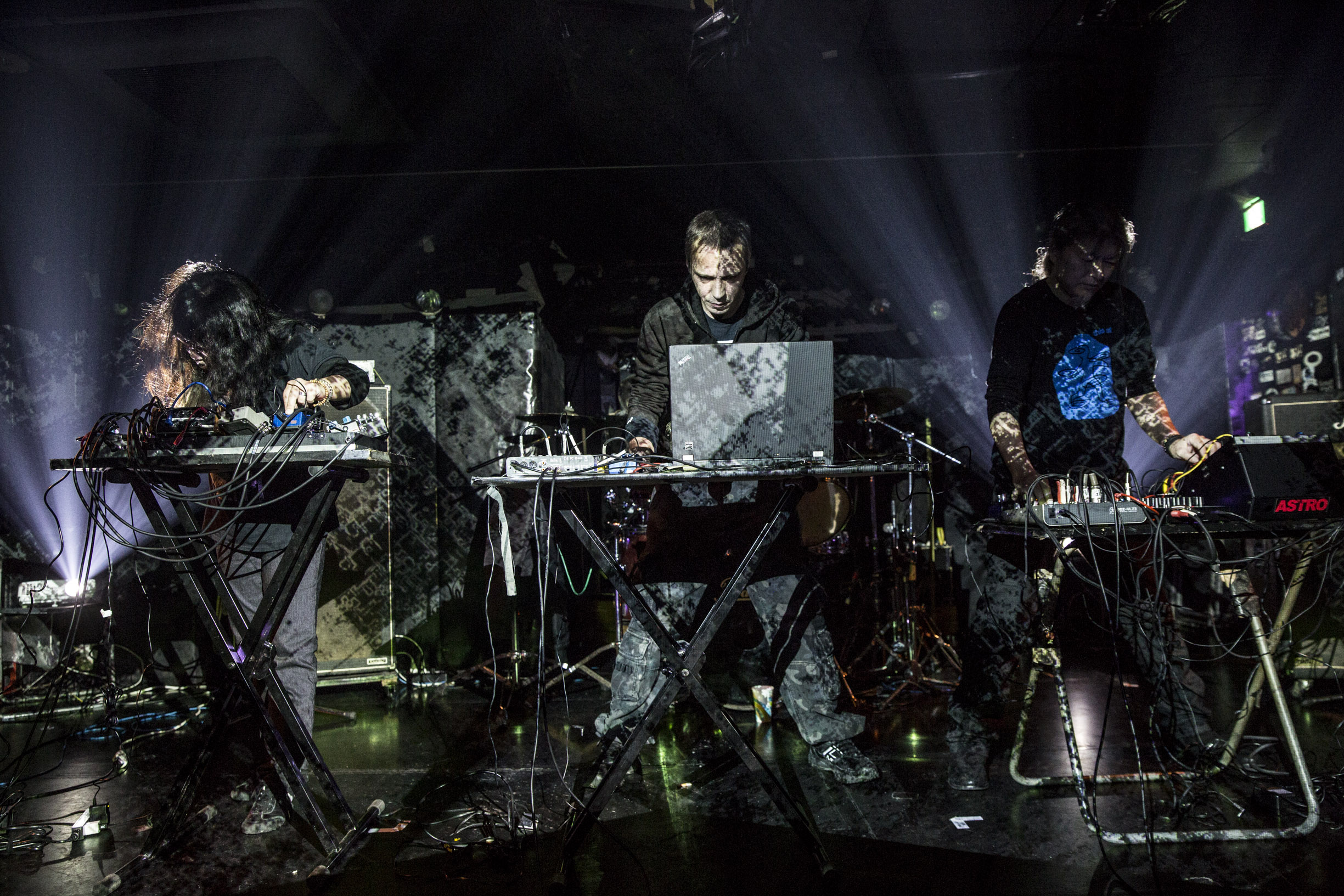 Cosmic Coincidence live